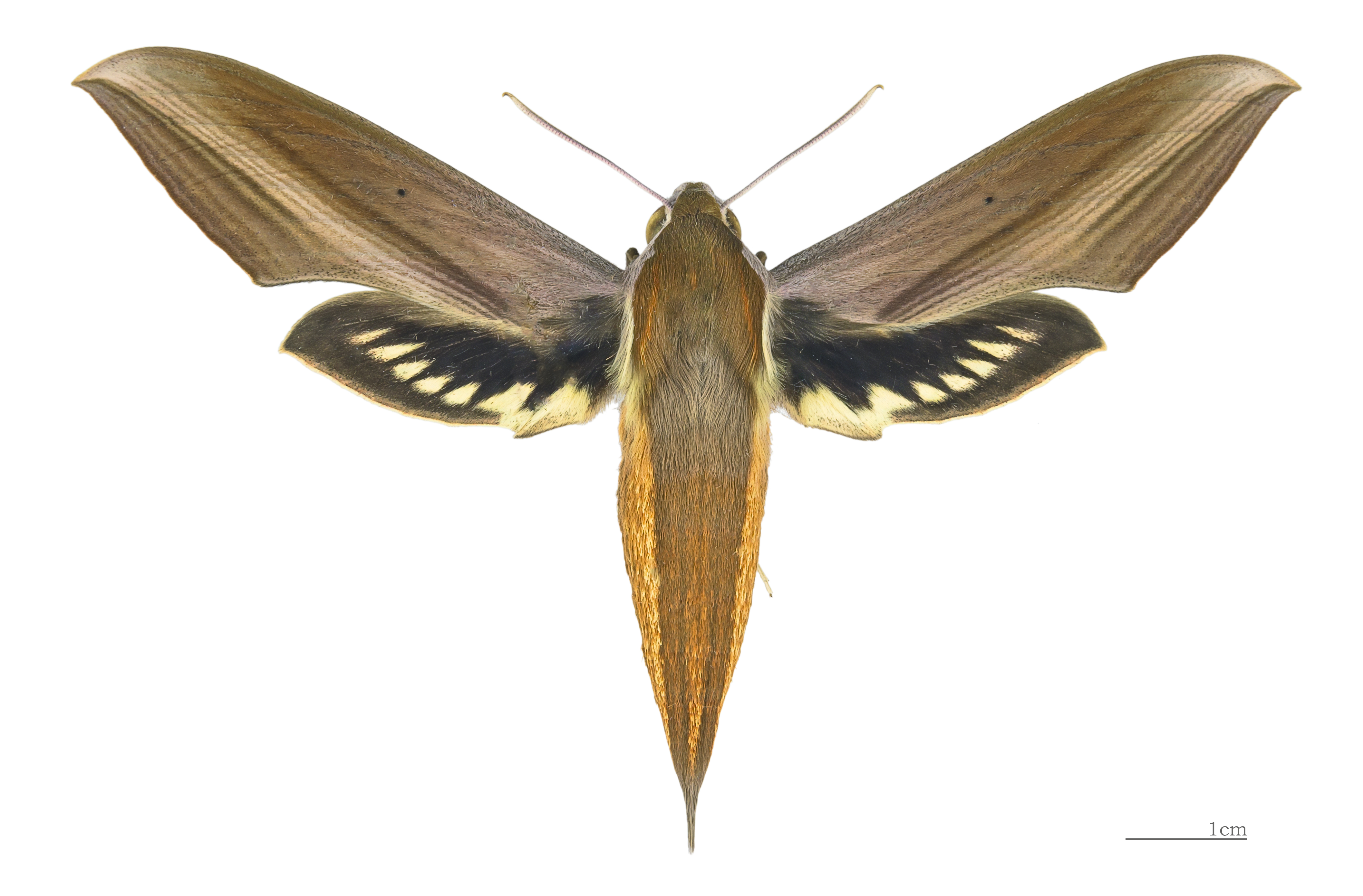 Xylophanes tersa - Dorsal side